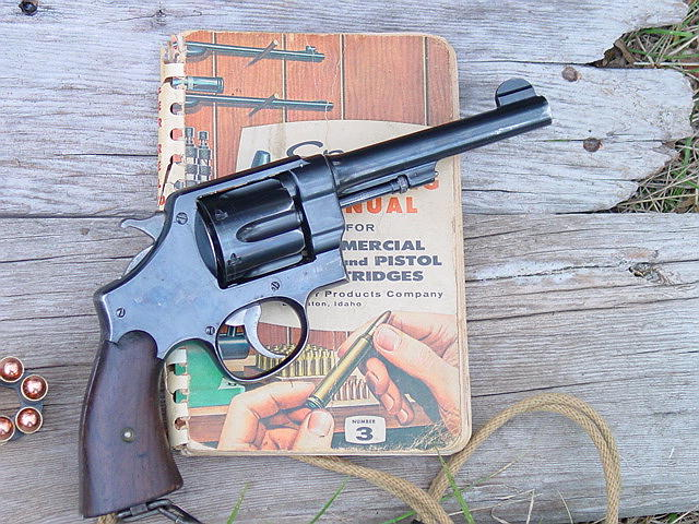 1917 Smith and Wesson with Speer reloading handbook